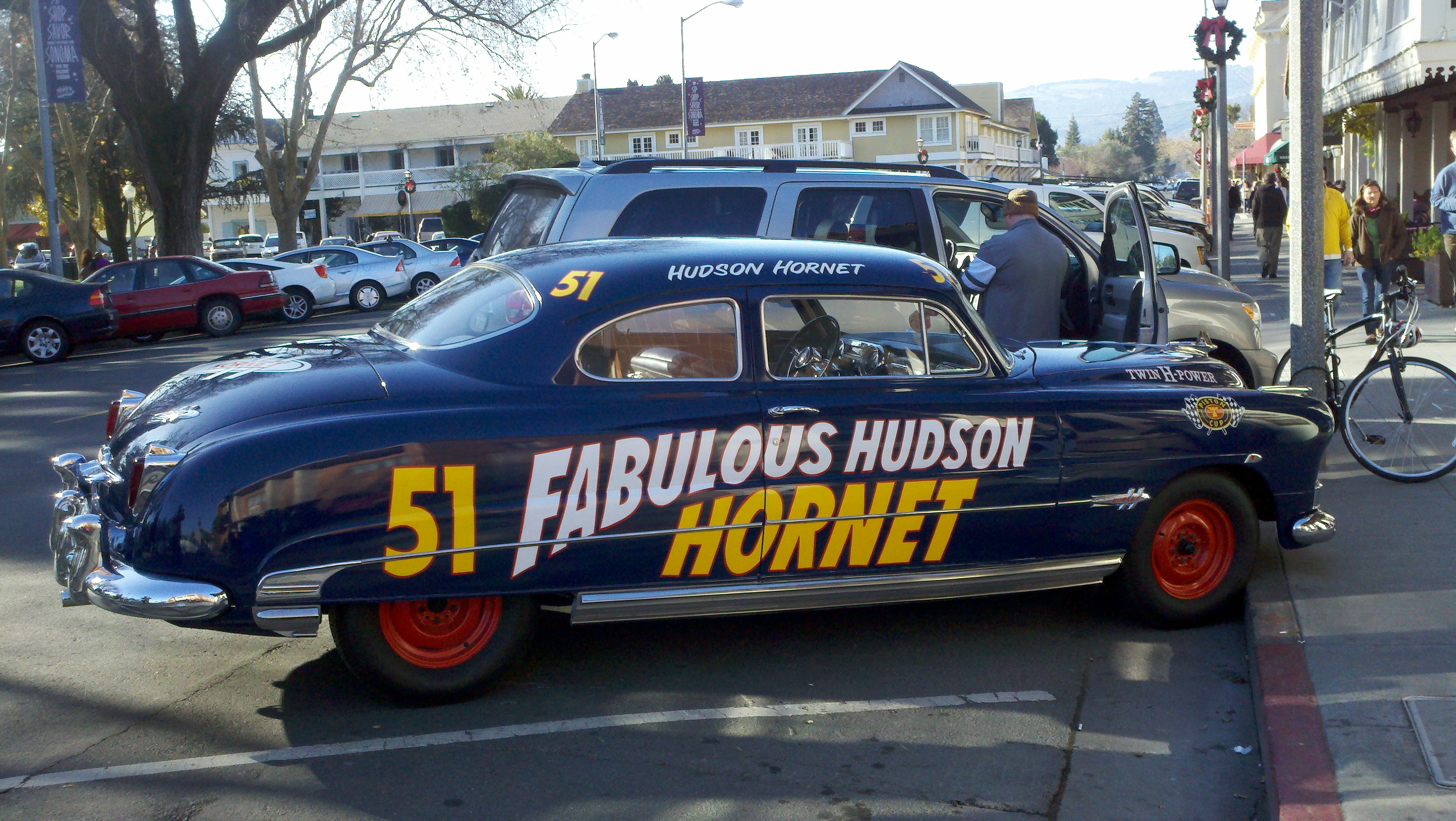 Hudson Hornet in Sonoma, California. Advertised as "signed inside by Paul Newman and John Lasseter", this vehicle displays the #51 of Newman's Cars character Doc Hudson.